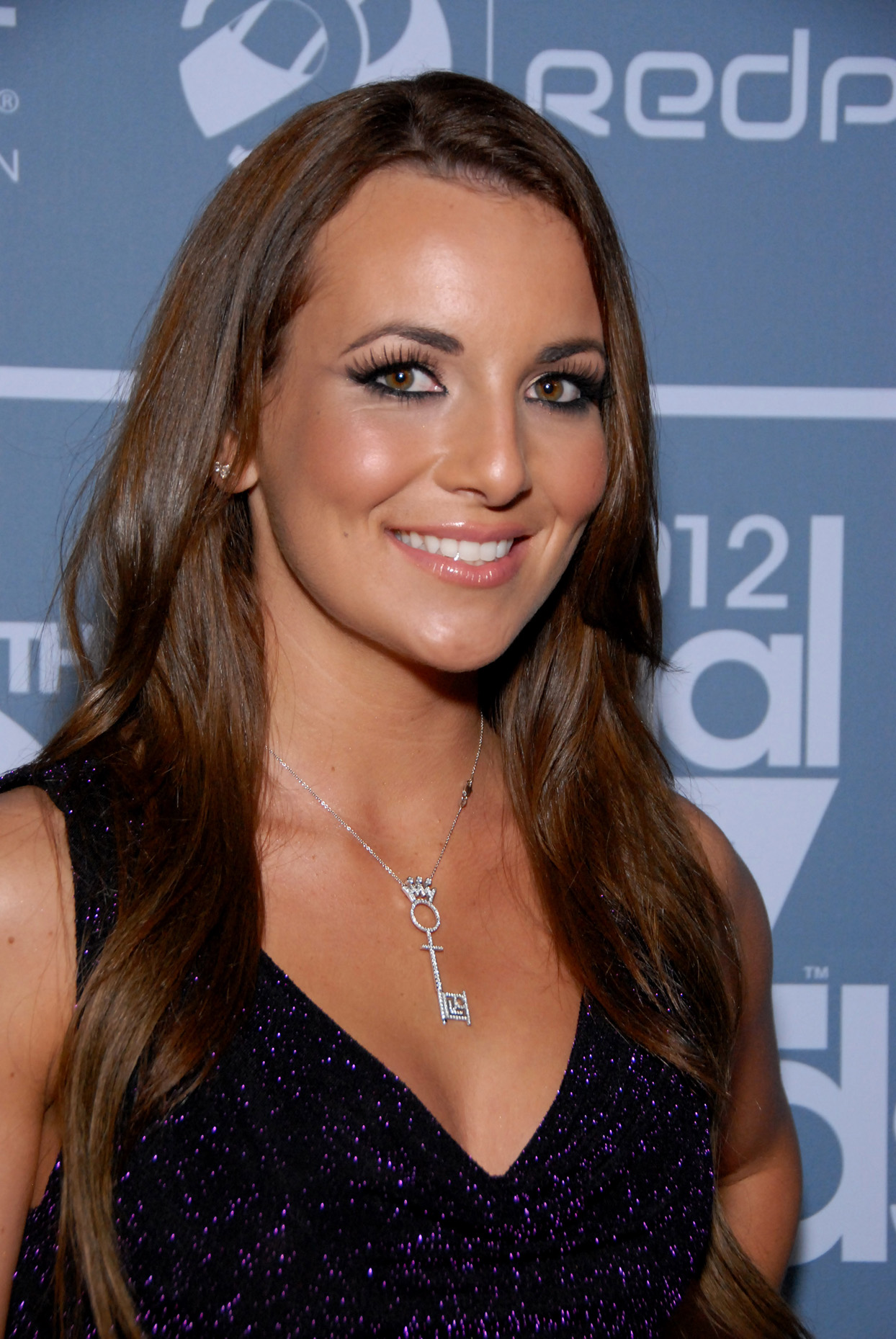 Jenna Rose at the XBIZ Awards on January 10, 2012 - Photo by Glenn Francis and